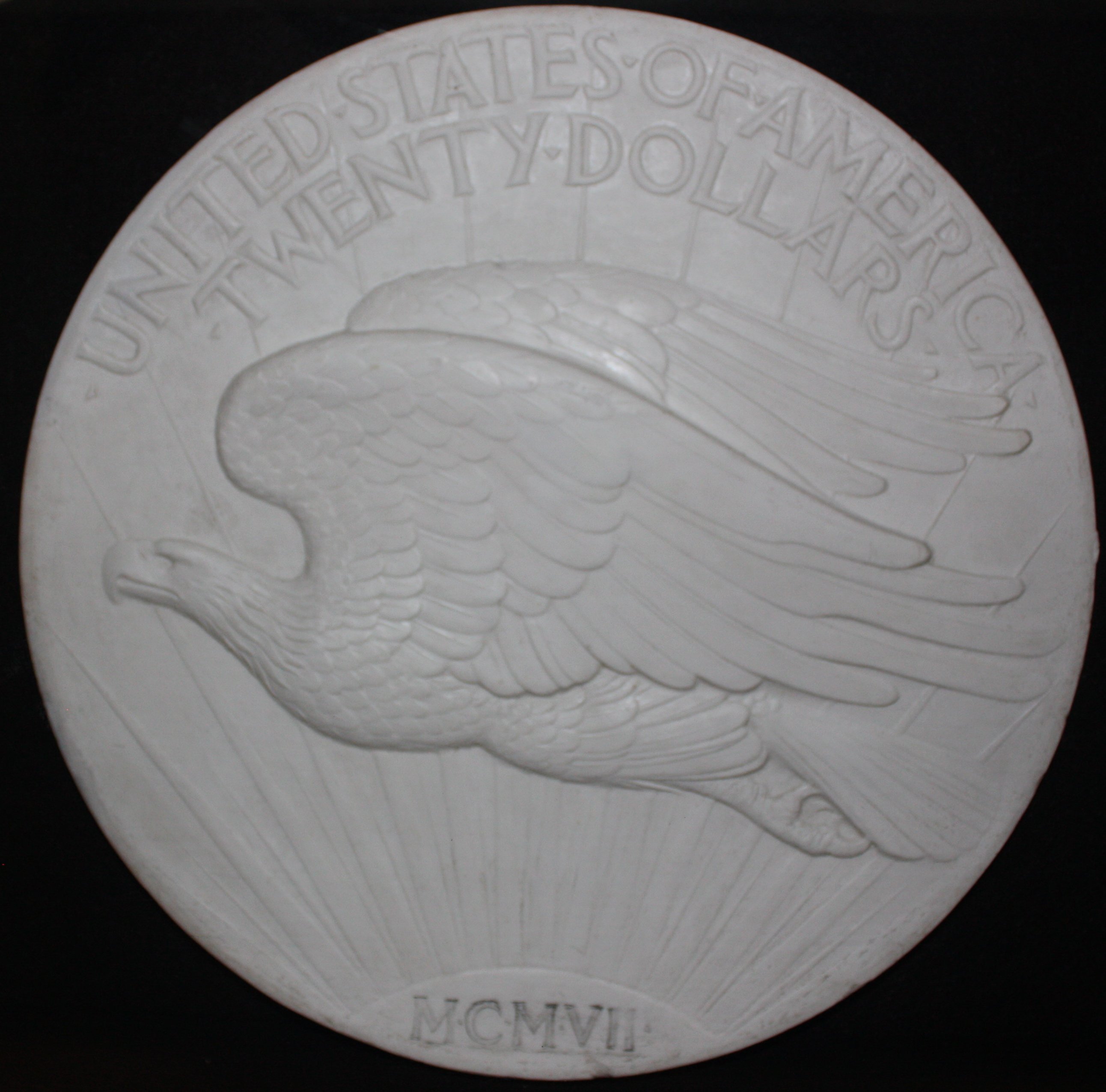 Model prepared by Augustus Saint-Gaudens for the reverse of his double eagle coin. Note that the Roman numeral date appears on the reverse. Model: The author died in 1907, so this work is in the public domain in its country of origin and other countries and areas where the copyright term is the author's life plus 100 years or less. This work is in the public domain in the United States because it was published (or registered with the U.S. Copyright Office) before January 1, 1924. This file has been identified as being free of known restrictions under copyright law, including all related and neighboring rights. Photograph